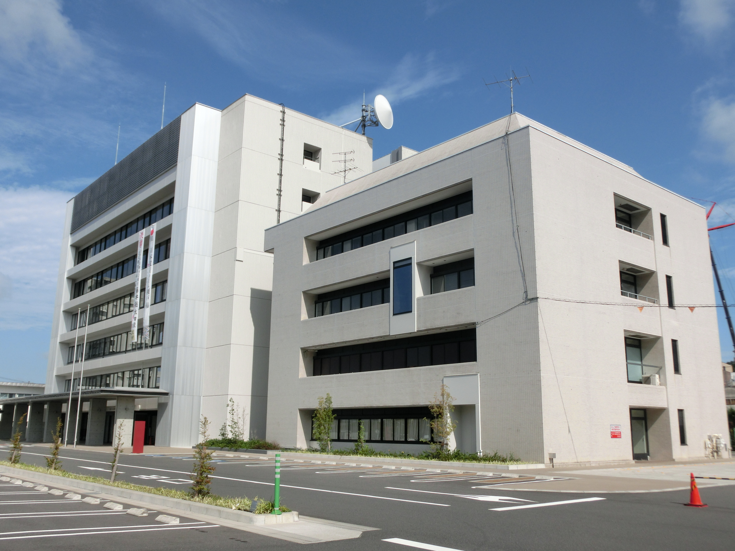 Seto City Hall in Aichi prefecture, Japan.